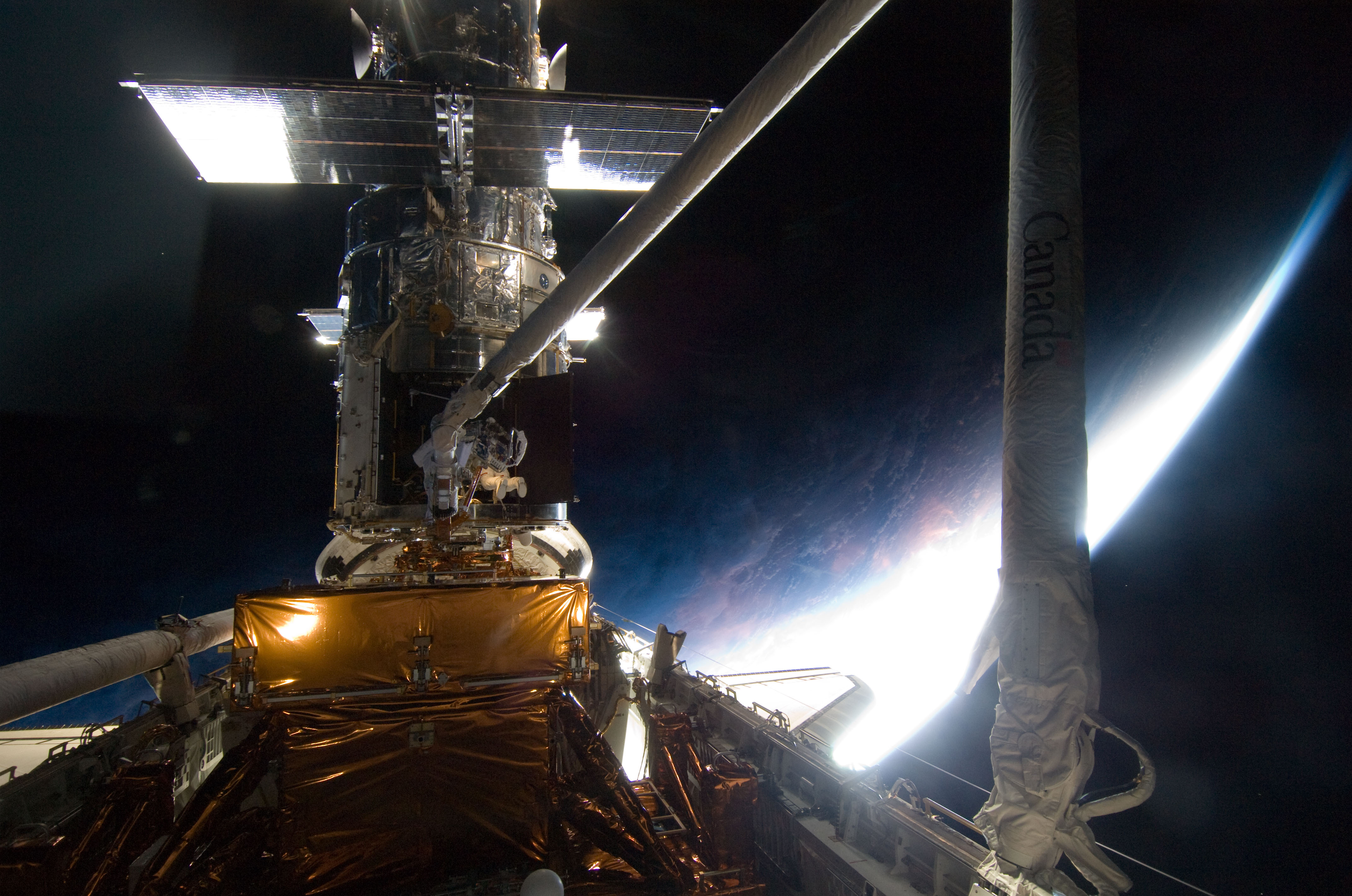 With a mostly dark home planet behind him, astronaut Michael Good, STS-125 mission specialist, rides Atlantis' remote manipulator system arm, better known as the Canada Arm, to the exact position he needs to be to continue work on the Hubble Space Telescope. Astronaut Mike Massimino, who shared two spacewalks with Good during the last week, is out of frame.